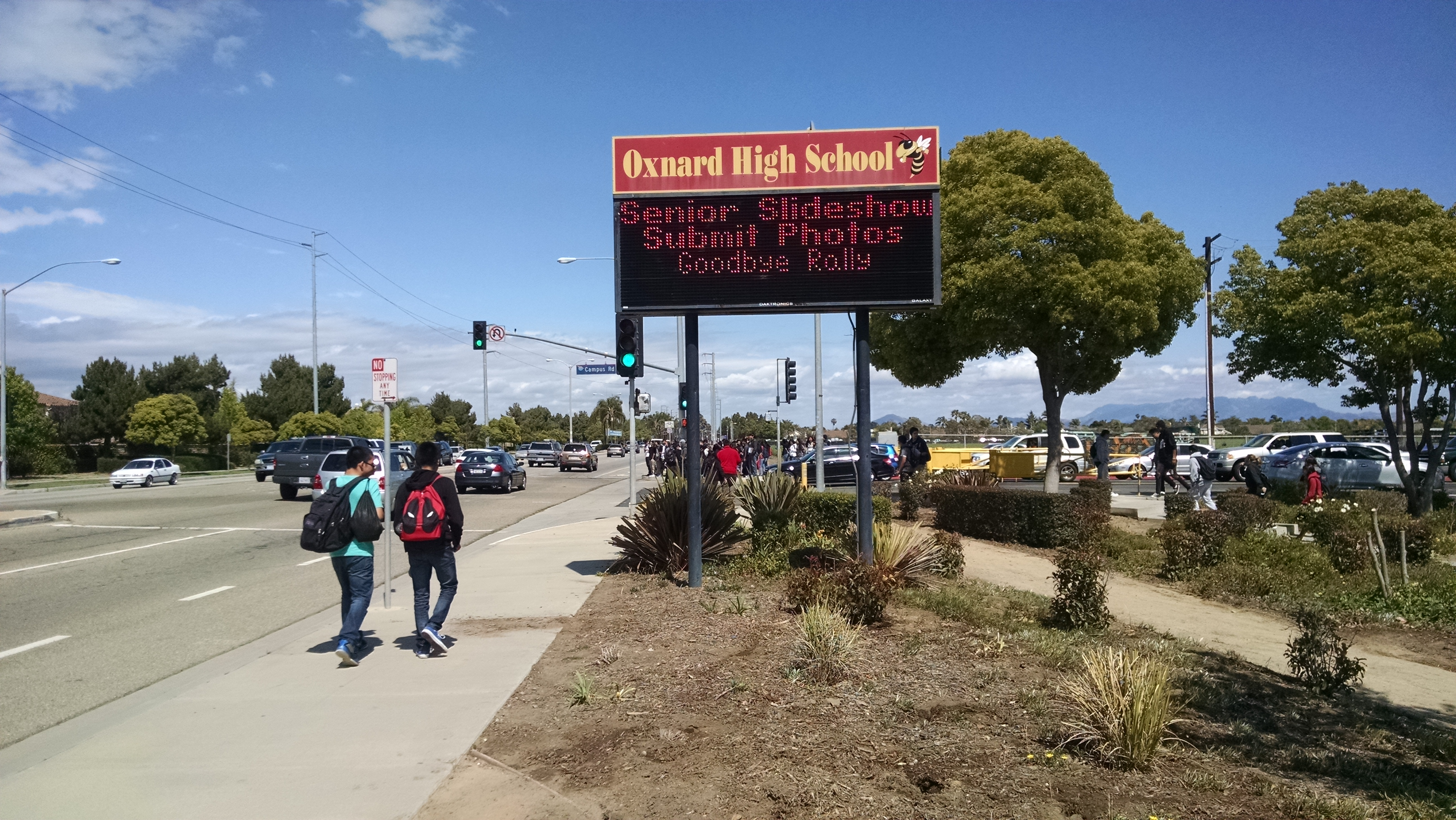 Marquee in front of school